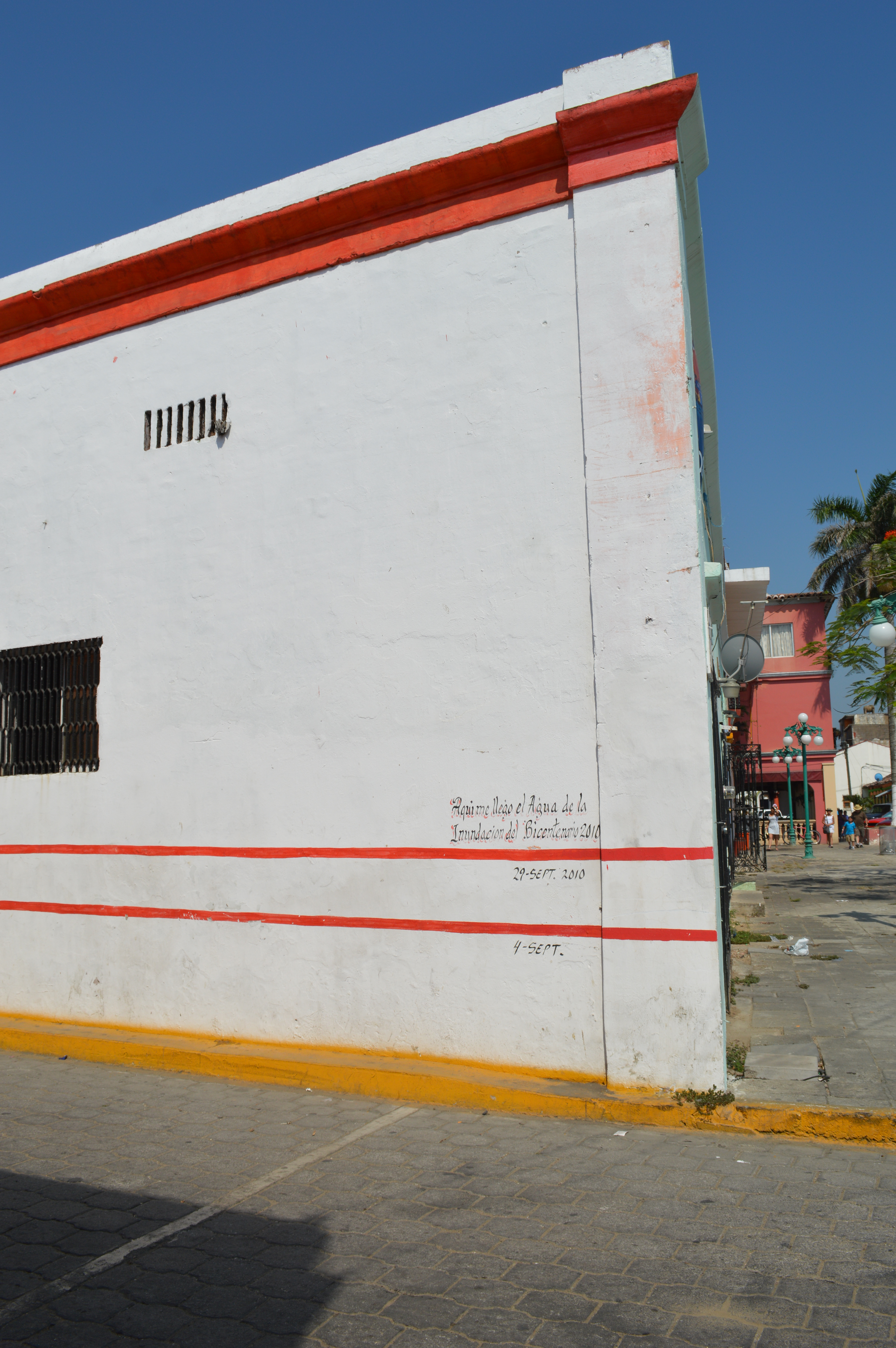 Building showing levels of water during flooding in 2010 in Tlacotalpan, Veracruz, Mexico